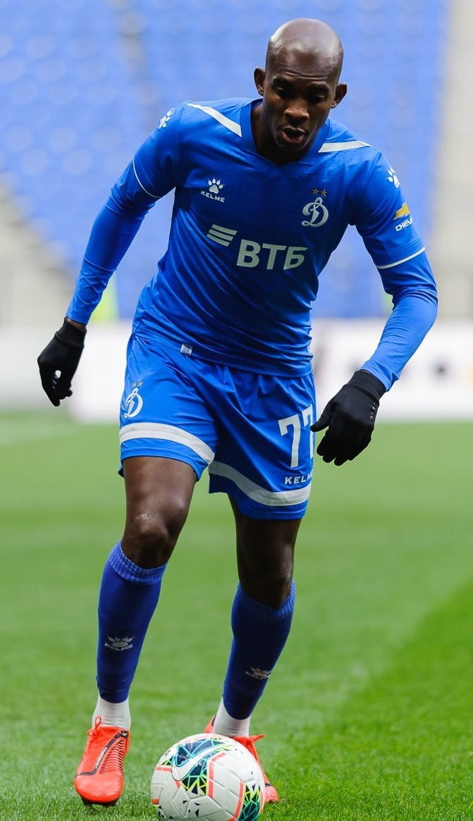 Charles Kaboré with FC Dynamo Moscow in a game against PFC Sochi.